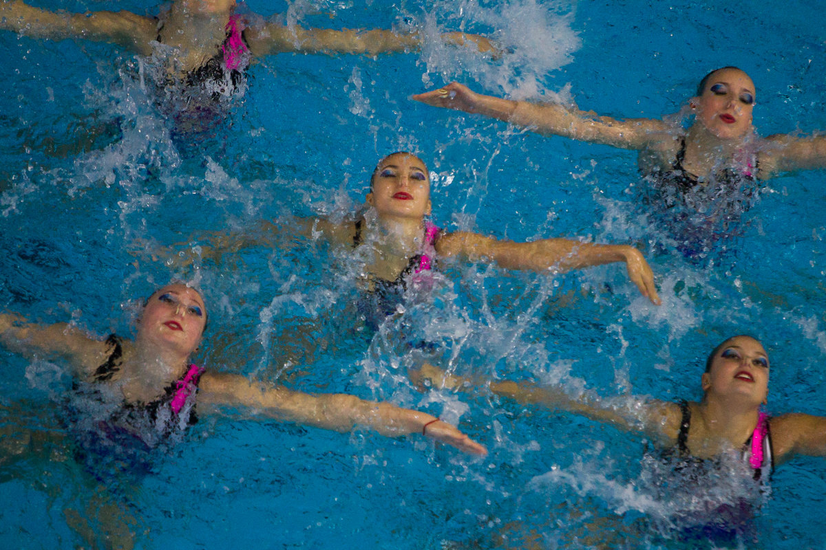 Championship of the North-West Federal District in synchronized swimming (2016-10-20)